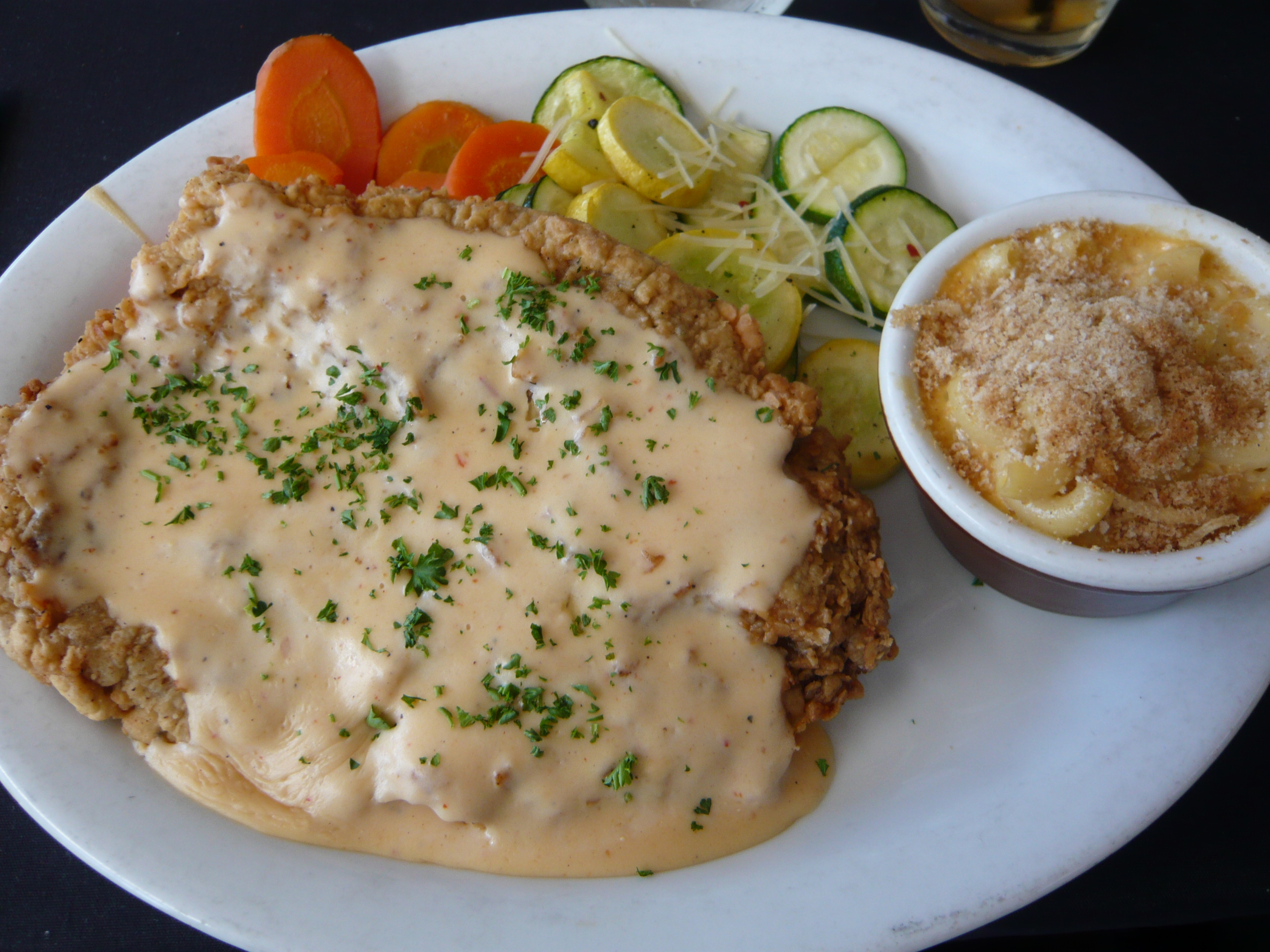 A white oval plate with chicken fried steak covered with chipotle cream gravy, macaroni and cheese, and vegetables (carrots, yellow squash, and zucchini) as served by the Moonshine Patio Bar & Grill at 303 Red River Street in Austin, Texas, USA. According to their online menu as viewed on 2009-08-14, they serve their entrees (main dishes) with "seasonal vegetables & choice of one side" included in the purchase price. Photographer's comment: "A tasty heart attack waiting to happen."